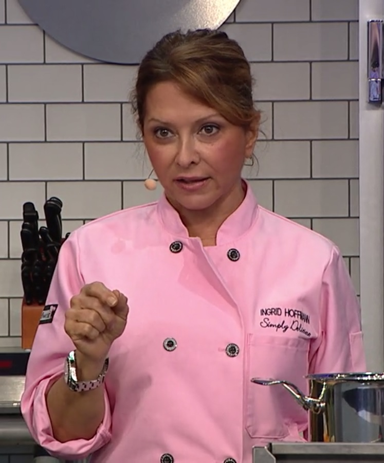 Colombian-American chef Ingrid Hoffman at the National Restaurant Association's NRA Show in 2016